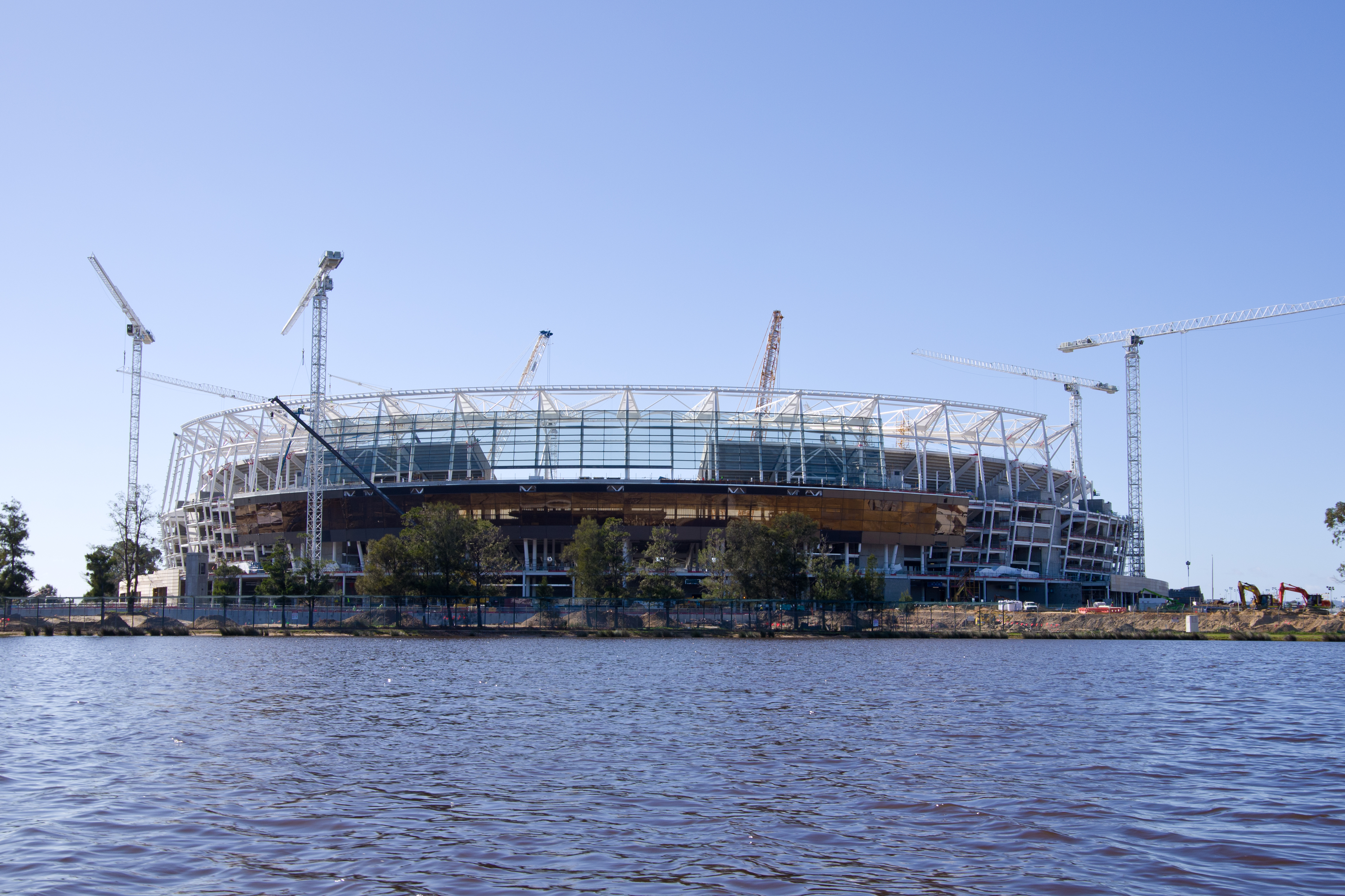 Perth Stadium construction from Swan River